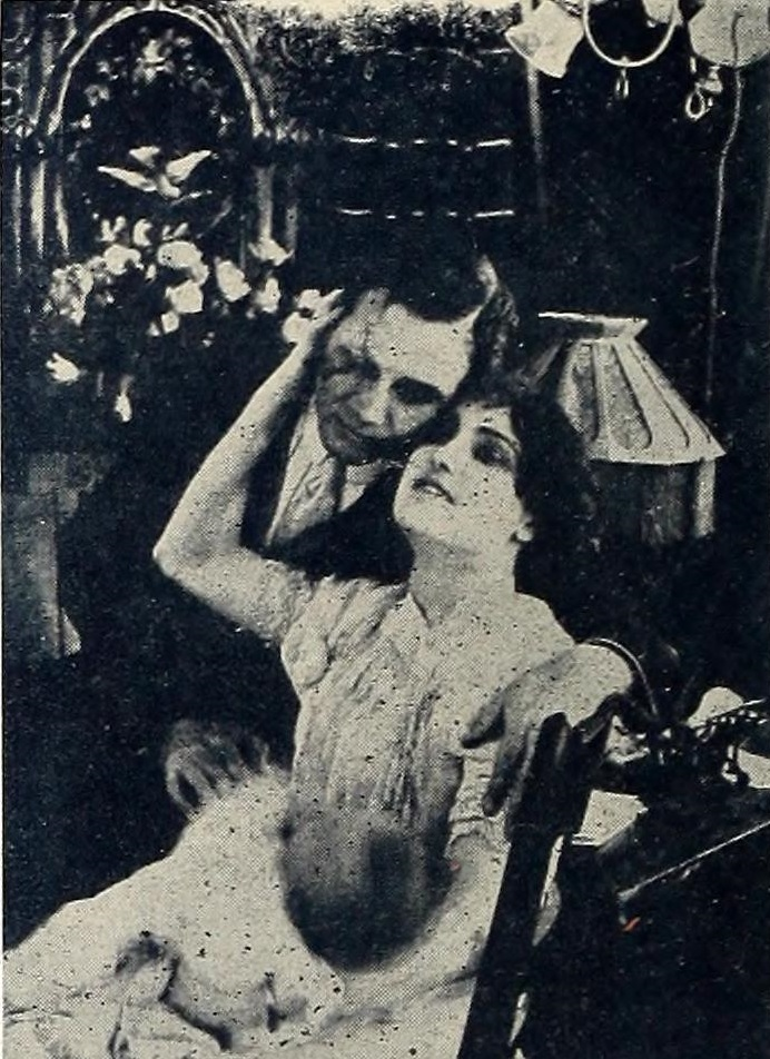 A film still of When Love Was Blind by the Thanhouser Company. Released in 1911, the film still shows Lucille Young as May Read and an unknown actor as Frank Larson.